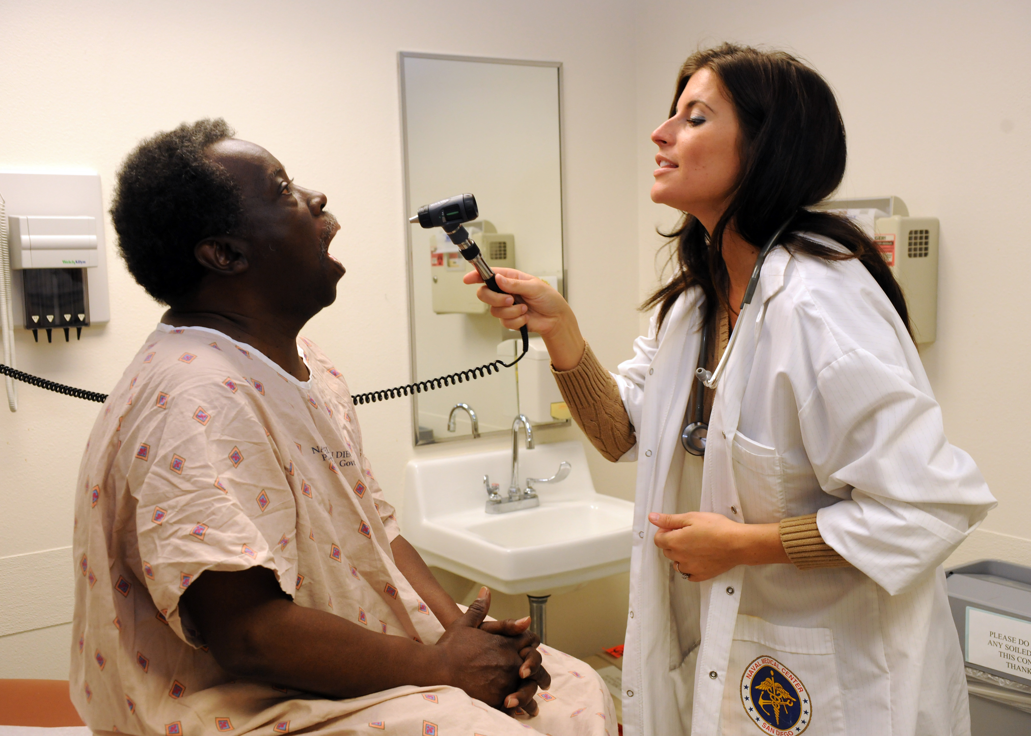 SAN DIEGO (March 7, 2011) Nurse practitioner Tiffany Holm performs a routine physical on Willie Benjamin at the Tricare Outpatient Clinic-Clairemont Mesa operated by Naval Medical Center San Diego. Twelve health care providers treat more than 3,000 active duty service members, retirees and beneficiaries at the clinic. (U.S. Navy photo by Mass Communication Specialist 2nd Class Chelsea A. Blom/Released)